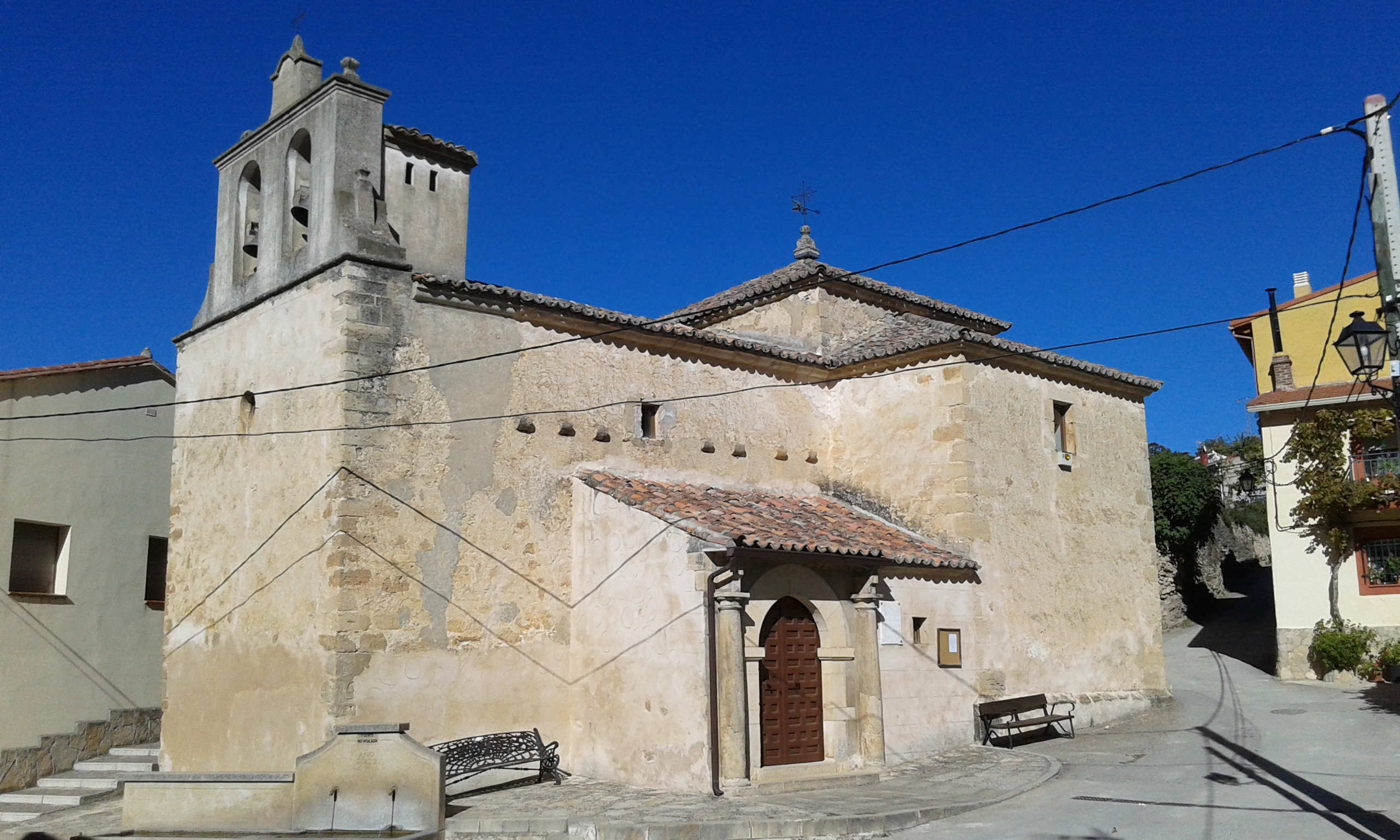 ElSotillo-Church